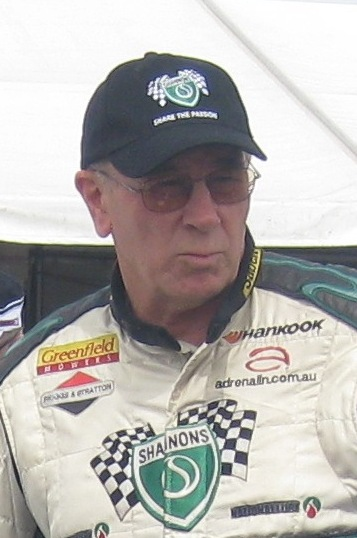 New Zealand born Australian racing driver Jim Richards, pictured at the Adelaide Parklands Circuit for the opening round of the 2011 Touring Car Masters